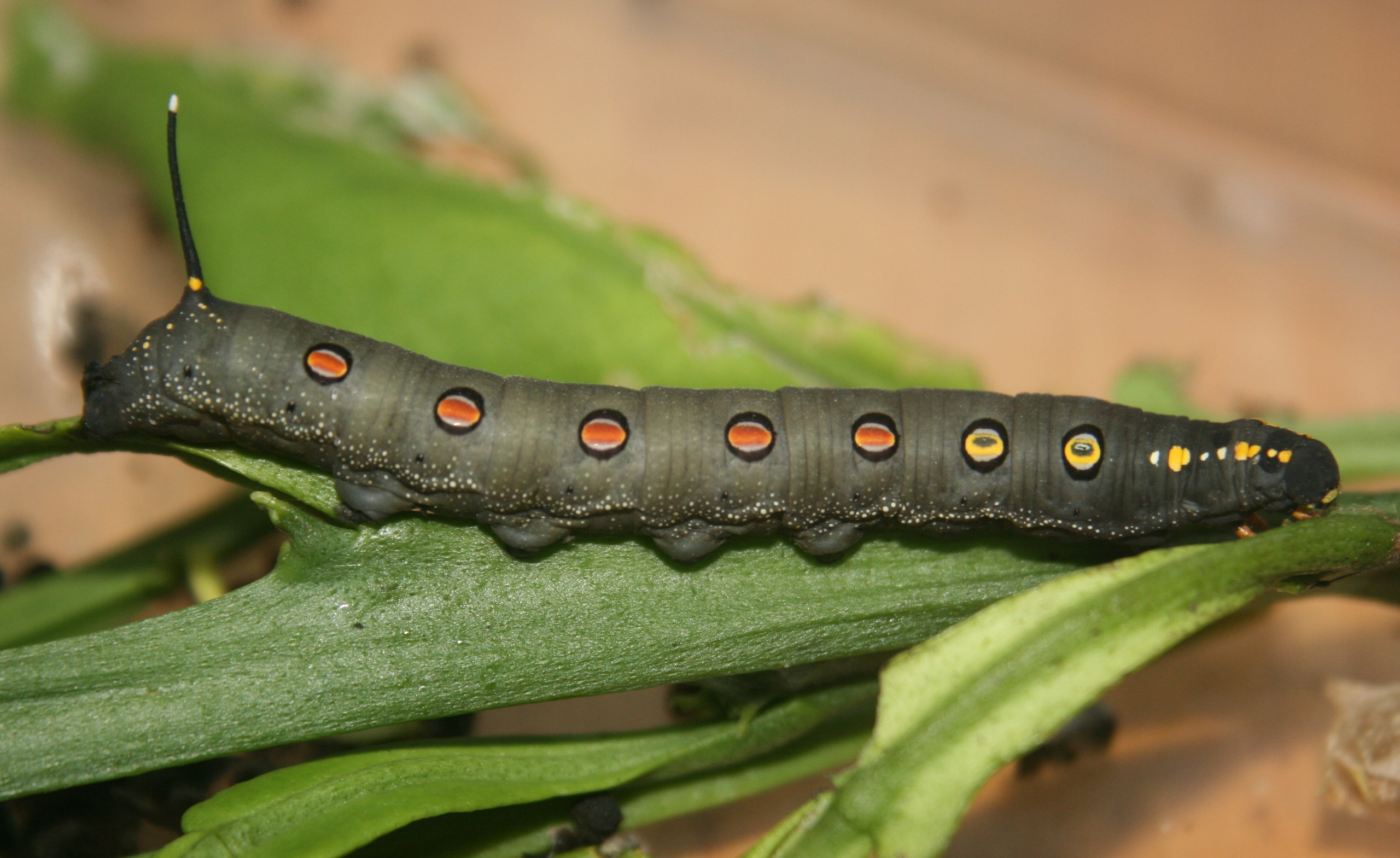 Caterpillar of Theretra oldenlandiae in Aichi prefecture, Japan.